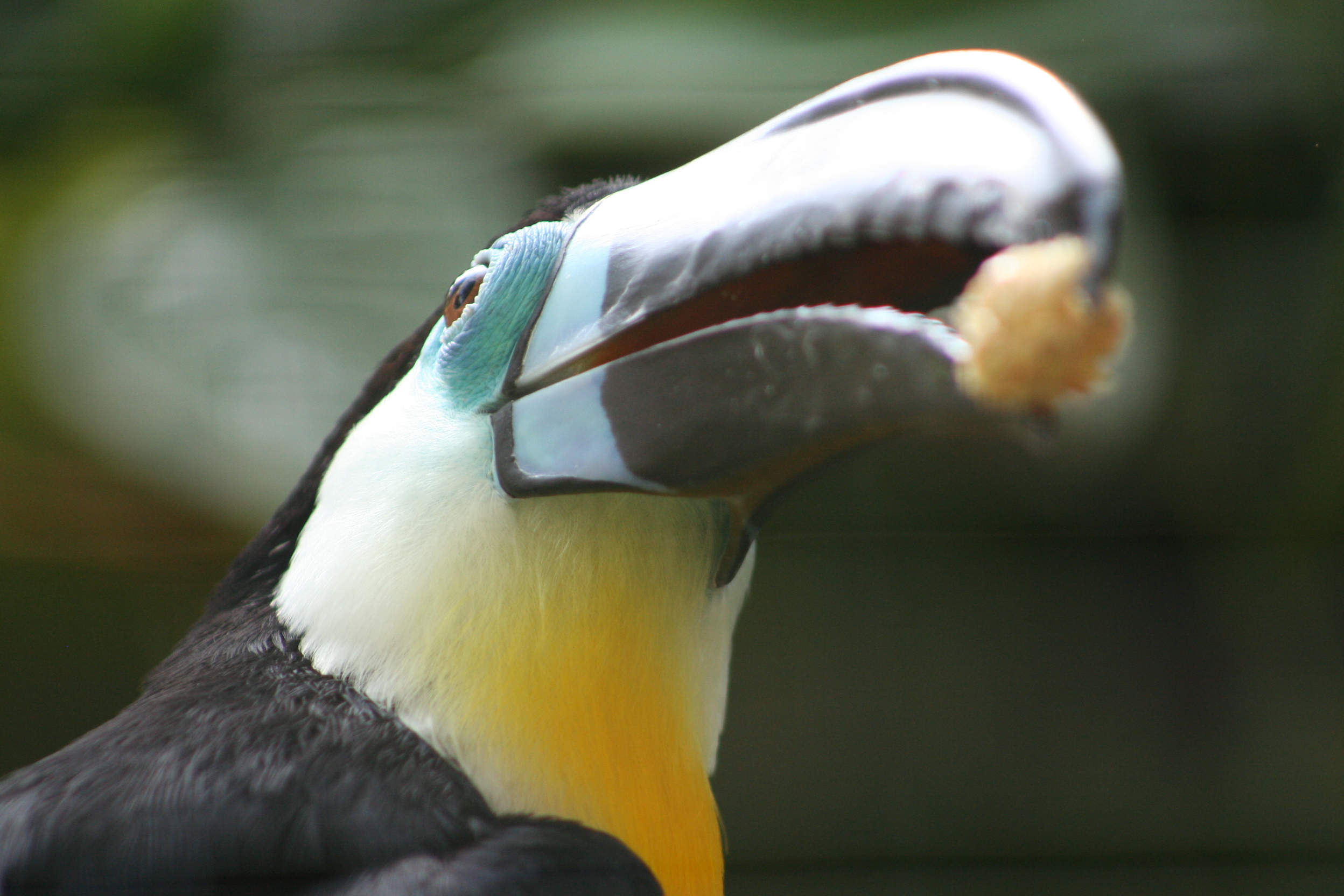 Ramphastos vitellinus - Channel-billed Toucan